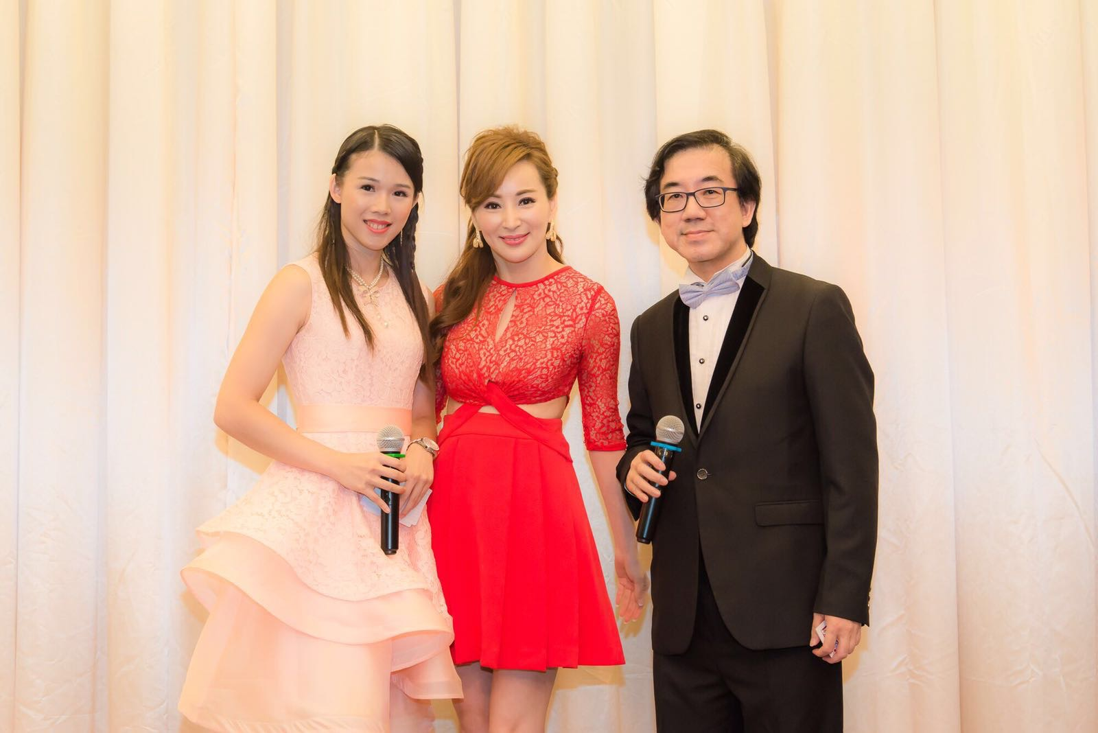 I know I am sweet.